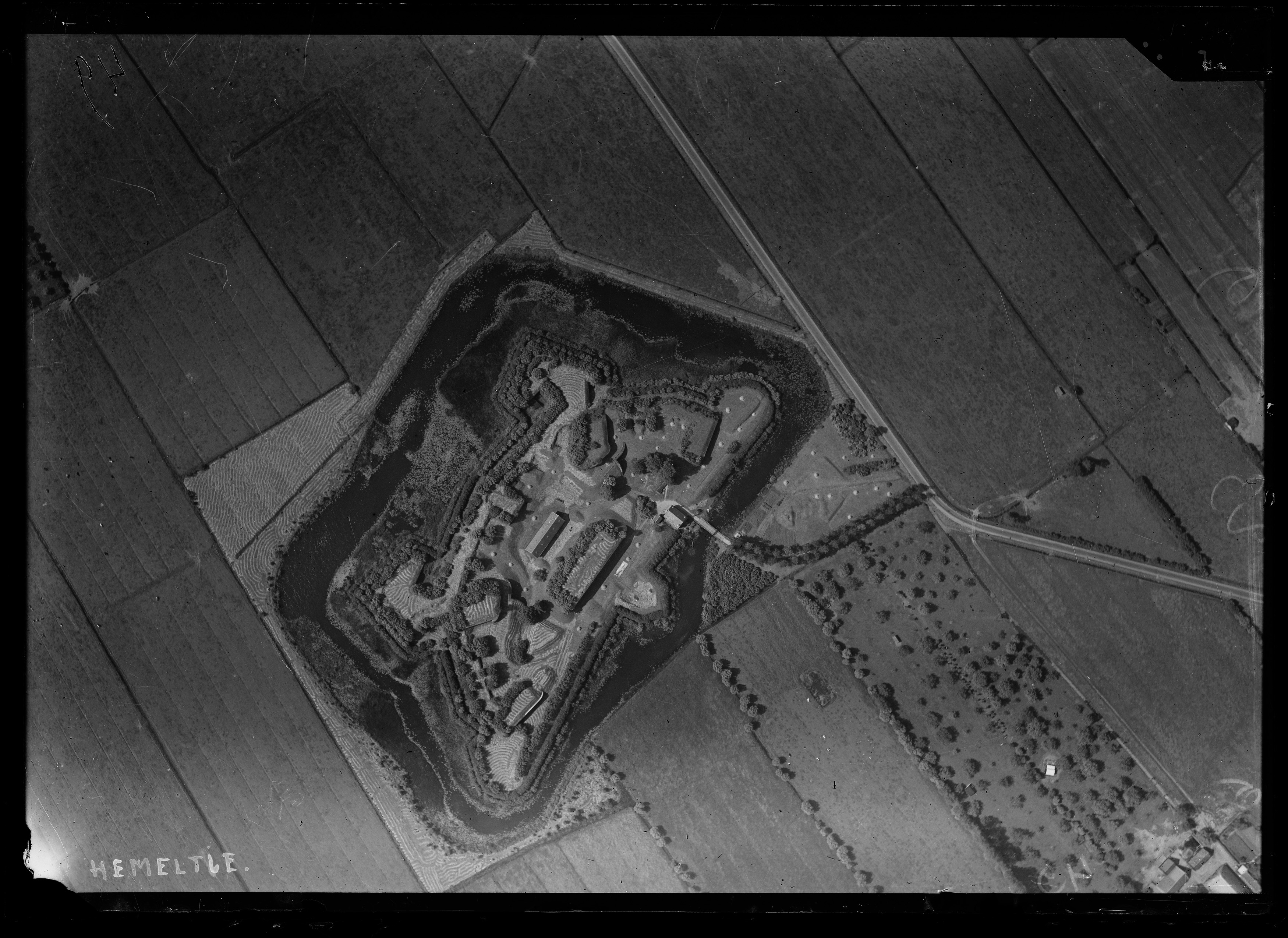 Aerial photograph of Fort 't Hemeltje, The Netherlands